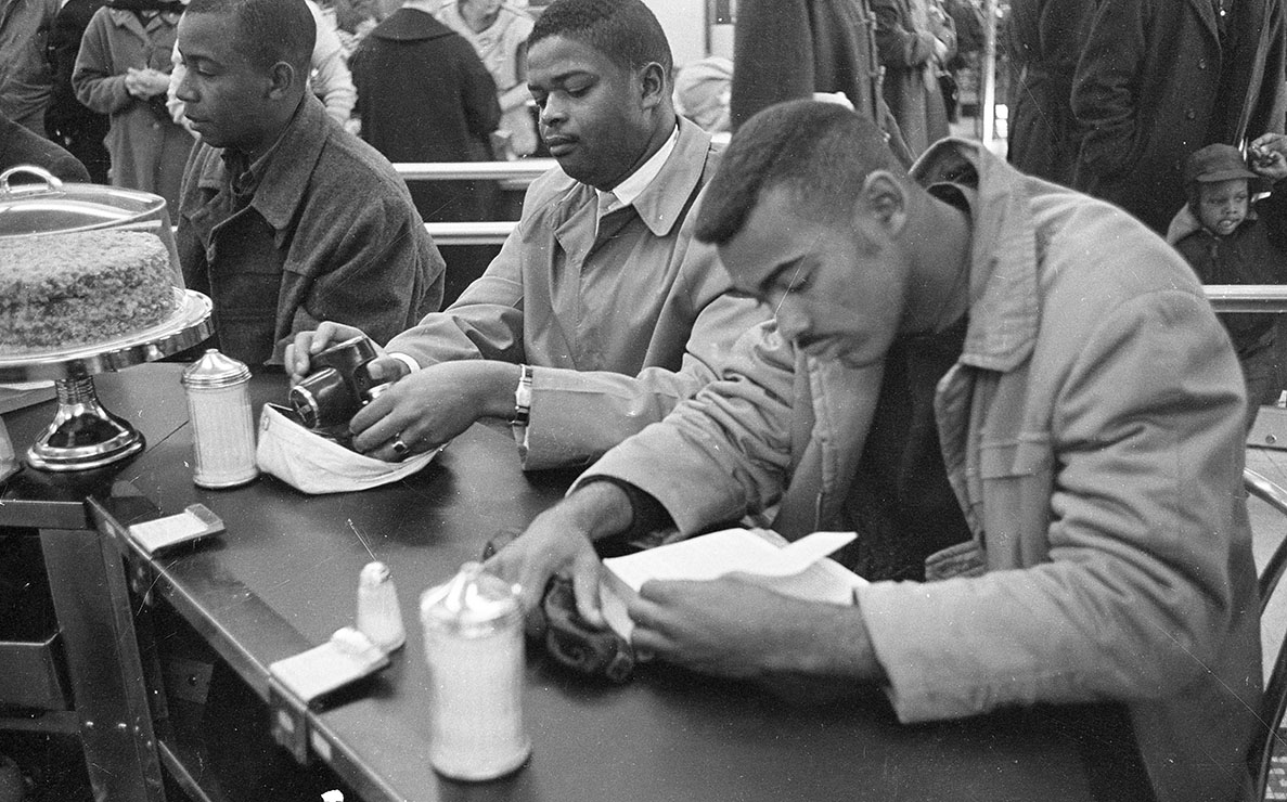 Three African American Civil Rights protesters and Woolworth's Sit-In, Durham, NC, 10 February 1960, as part of a series of protests that led to the end of legal segregation. From the N&O Negative Collection, State Archives of North Carolina, Raleigh, NC. Photos taken by The News & Observer, COPYRIGHT N&O. Illegal to use or public without expressed permission from The News & Observer newspaper, Raleigh, NC.